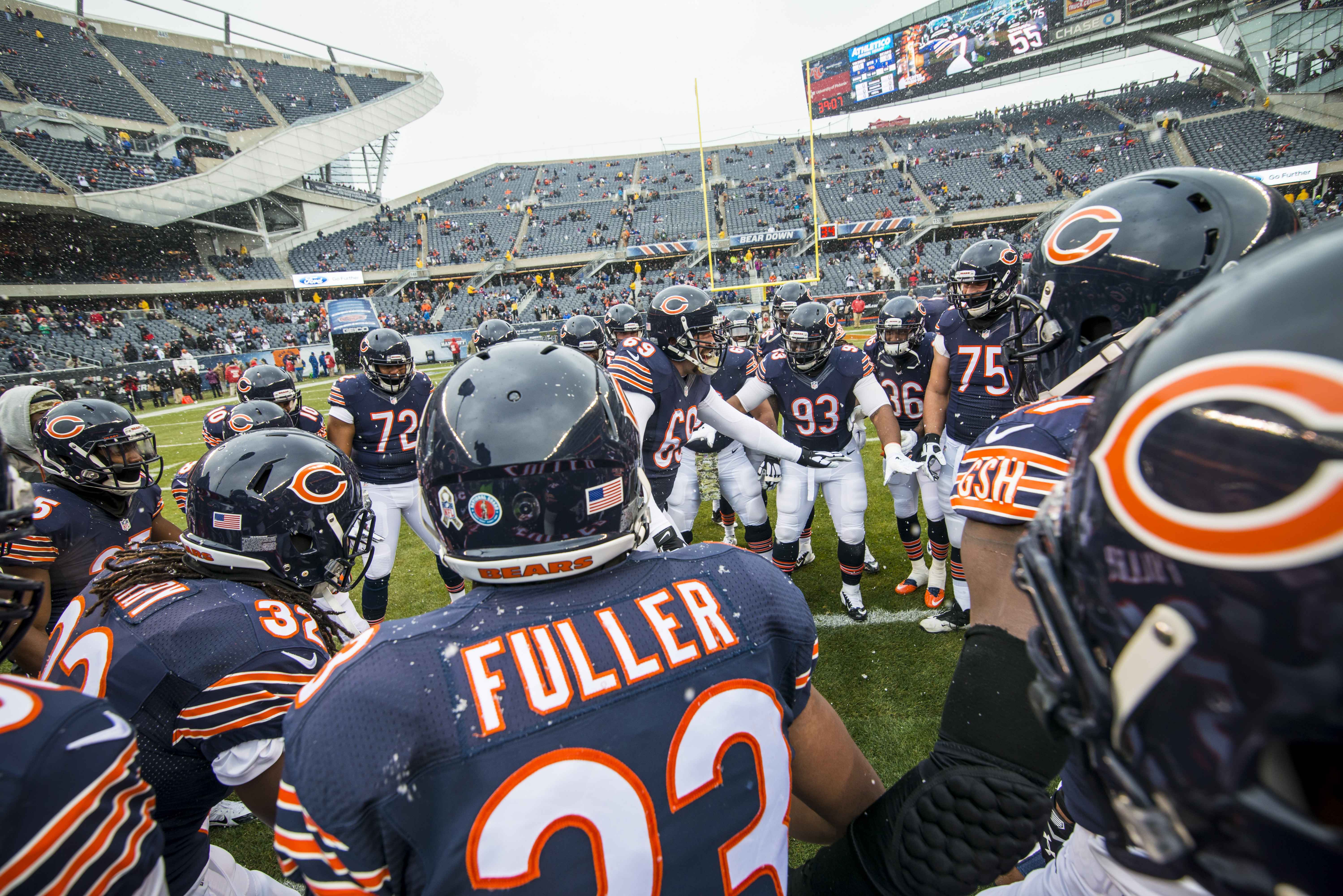 Chicago Bears defensive end Jared Allen has a speech before the match against Minnesota Vikings